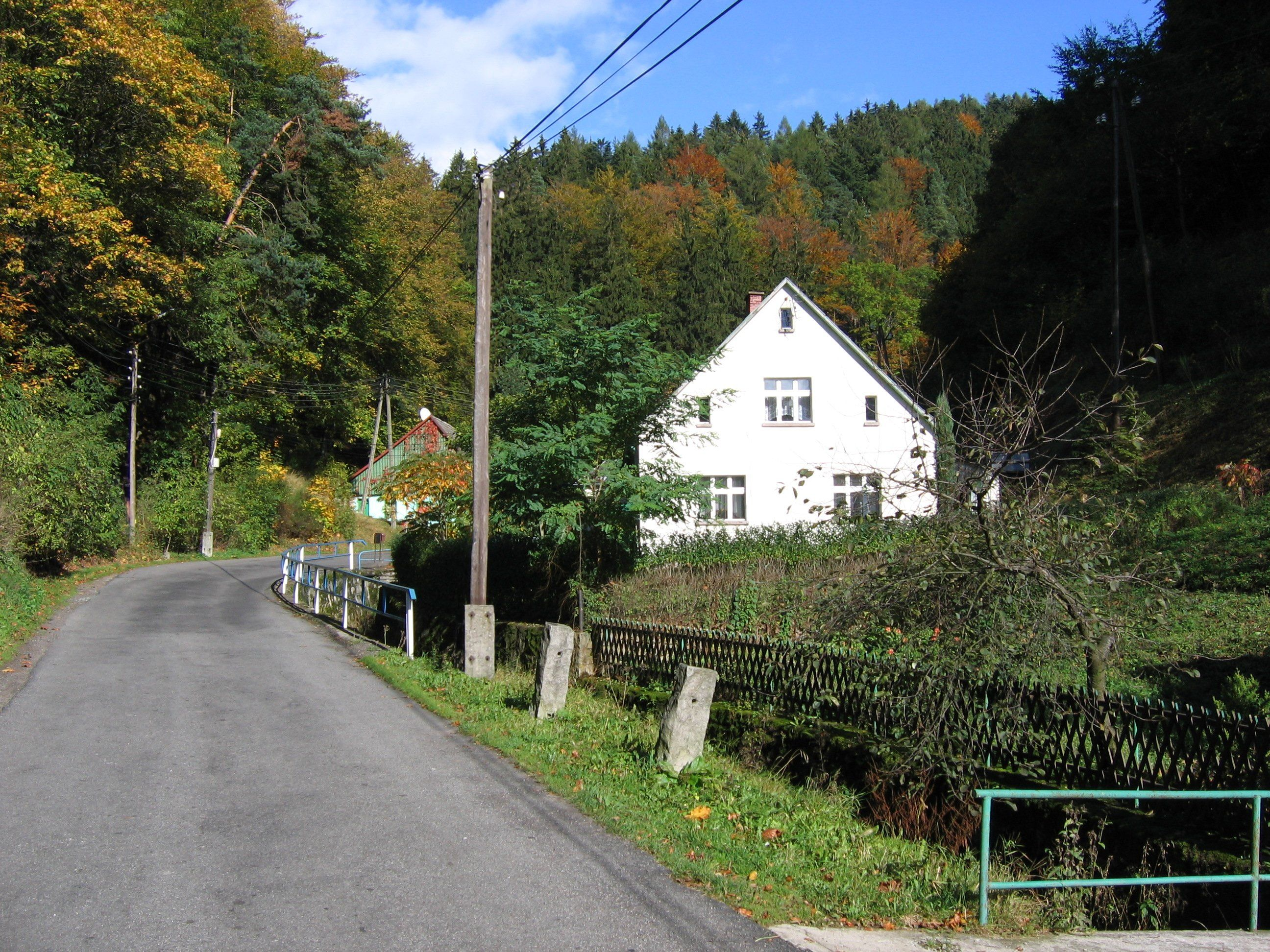 Czermna (Kudowa-Zdrój) - the road to Pstrążna